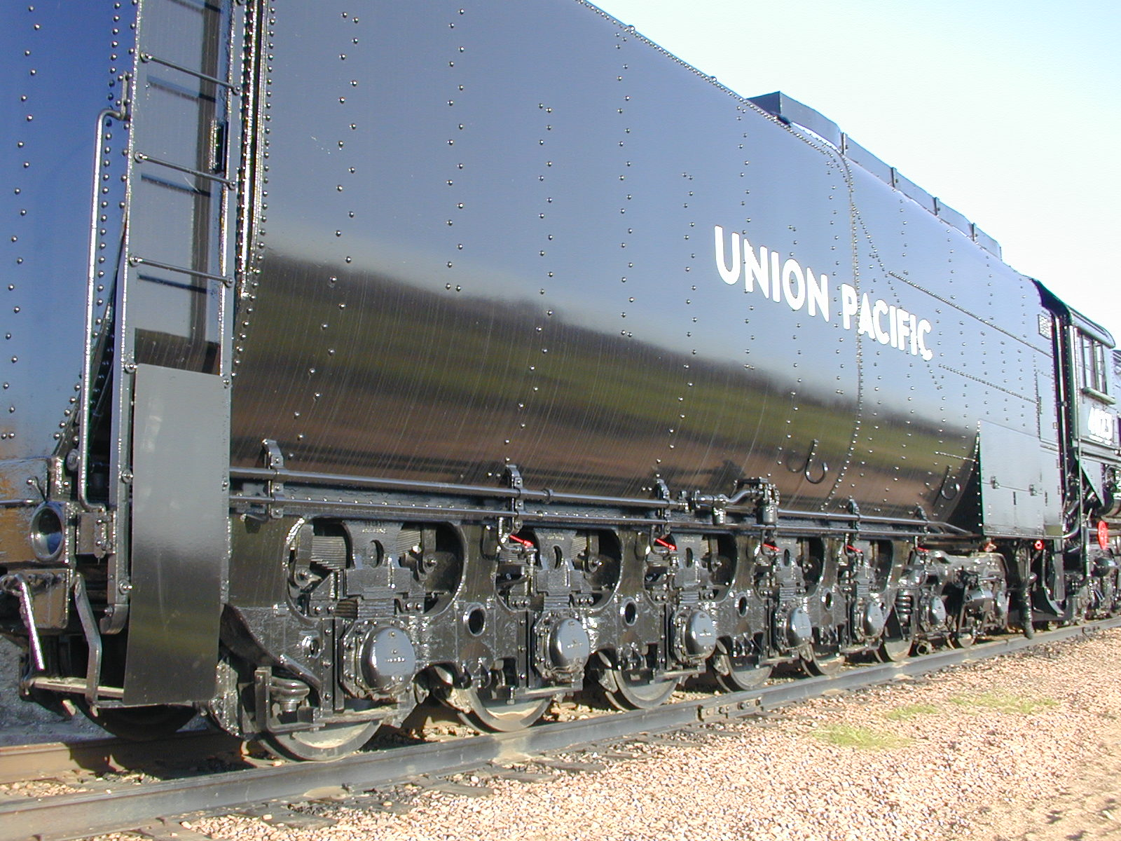 Union Pacific Big Boy 4-8-8-4 steam locomotive 4023. The 4023 is one of a class of 25 locomotives built between 1941 and 1944 by Alco. The picture was taken in Omaha, Nebraska. The locomotive has since been relocated to Kenefick Park. This image is a closeup of the "centipede" tender. The rear ladders have been blanked to prevent viewers from climbing up. The tender's payload is mostly water.